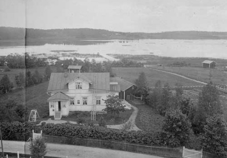 Former lake of Nurmijärvi, in Nurmijärvi, Finland